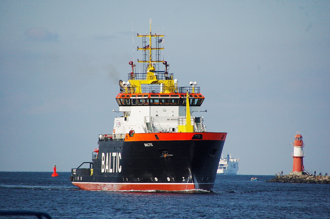 Pictures from Baltic (Ship)